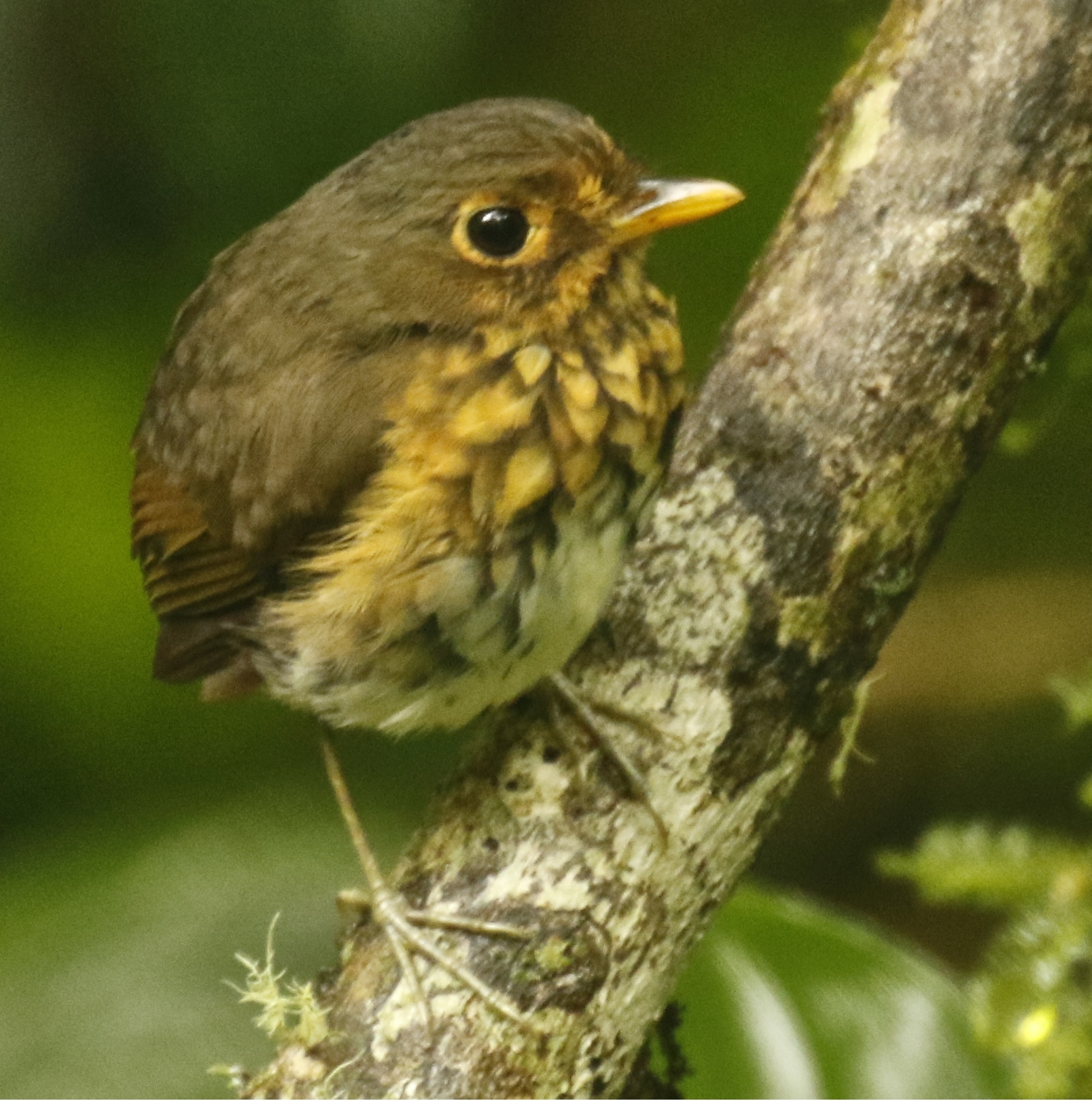 Wildsumaco Lodge - Ecuador